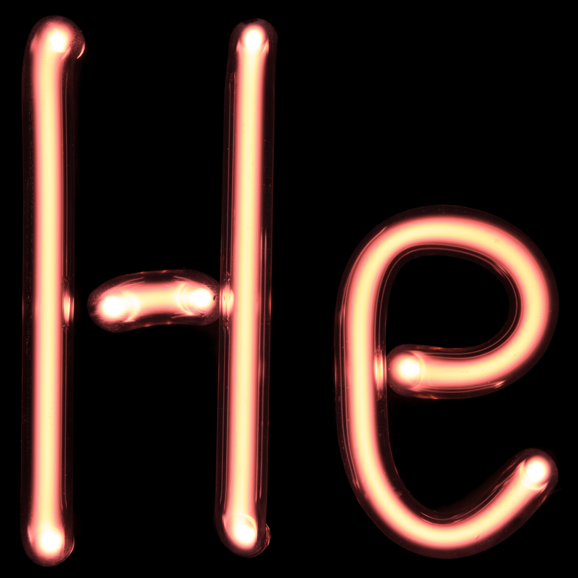 Image of a helium filled discharge tube shaped like the element’s atomic symbol.